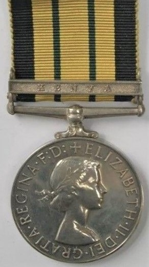 British campaign medal awarded for minor campaigns Africa. Version awarded for Kenya 1952-56